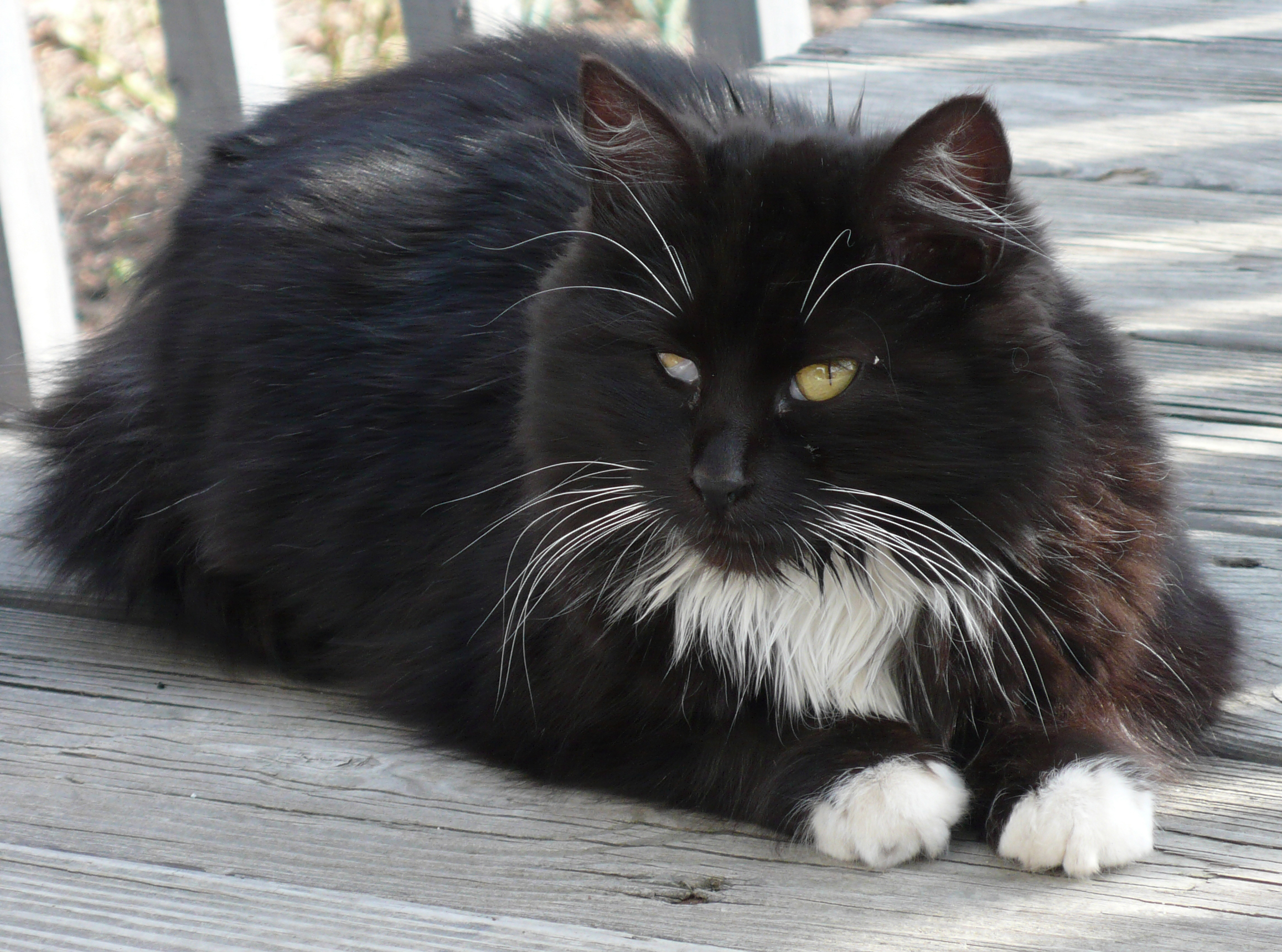 Stray female cat.